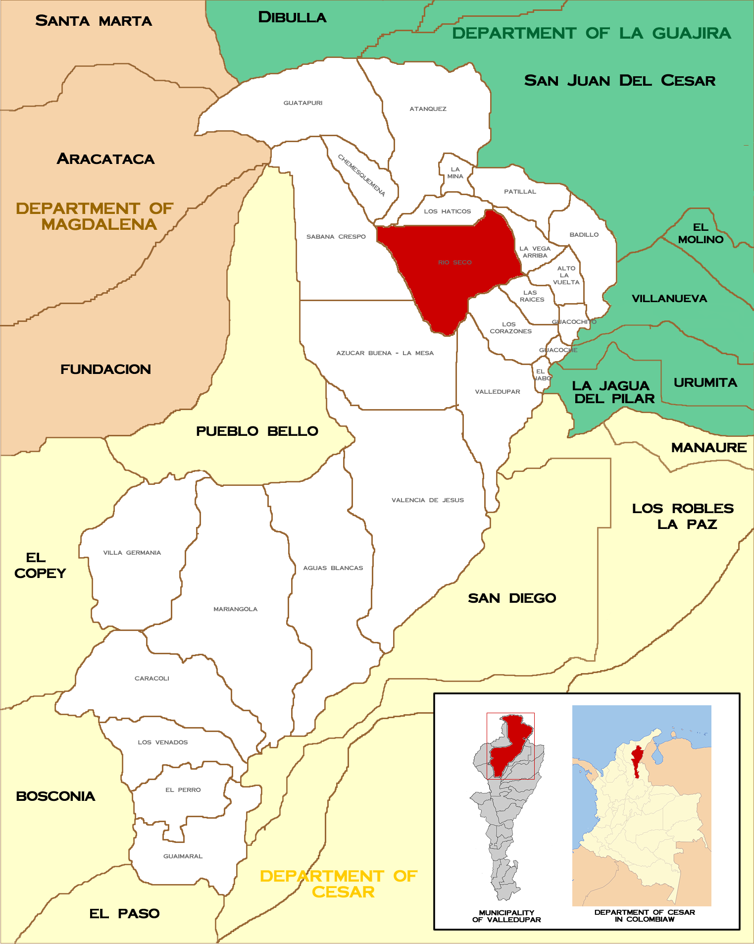 Map of Corregimientos of Valledupar, Rio Seco